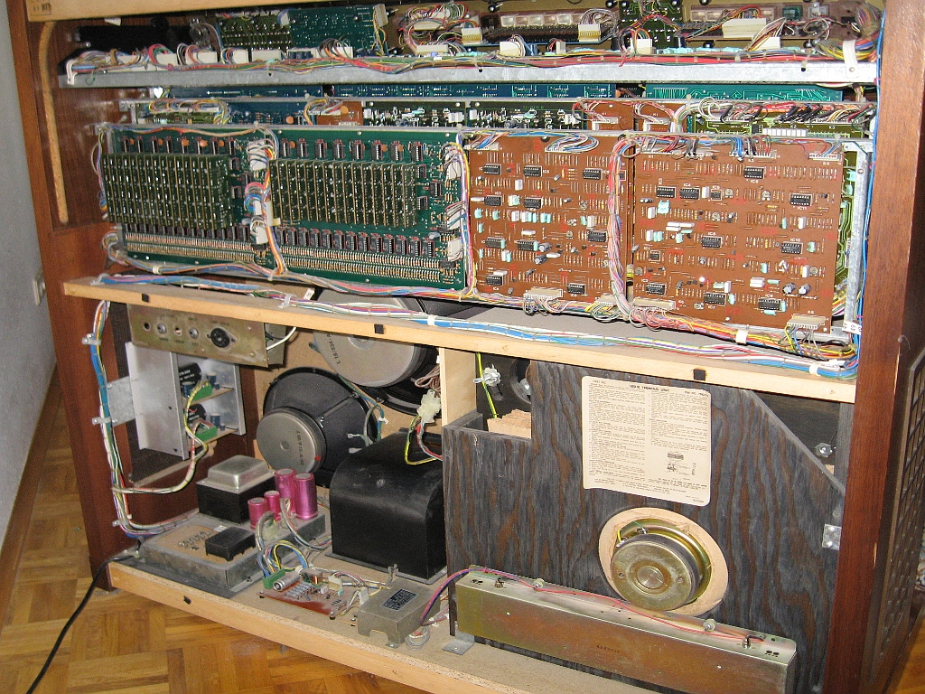 Farfisa Pergamon "technical view 1"